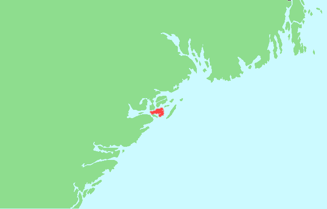 Locator map of Skåtøy, Telemark, Norway